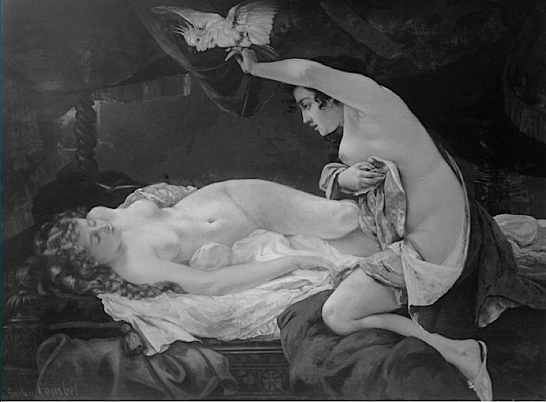 Le Rêve or Vénus et Psyché, oil on canvas, signed and dated G. Courbet 64. Dim. : 145 x 195 cm. The photography has been taken by Robert Jefferson Bingham in 1864. This painting was exhibited in Paris in 1929 and belonged to Gallery Paul Durand-Ruel, then was sold to M. Otto Gerstenberg in Berlin.